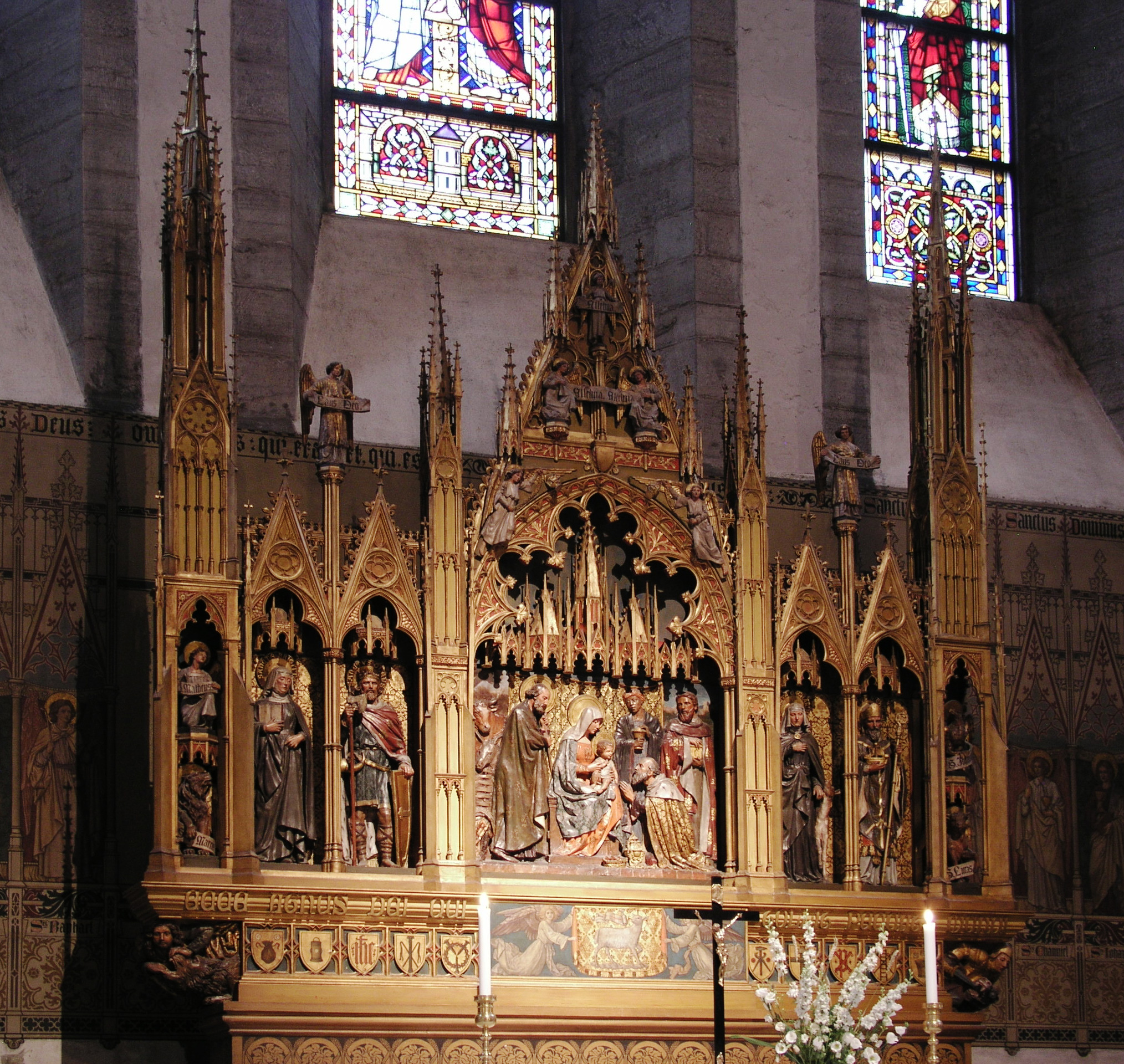 Cathedral Visby Sankta Maria. Altar.